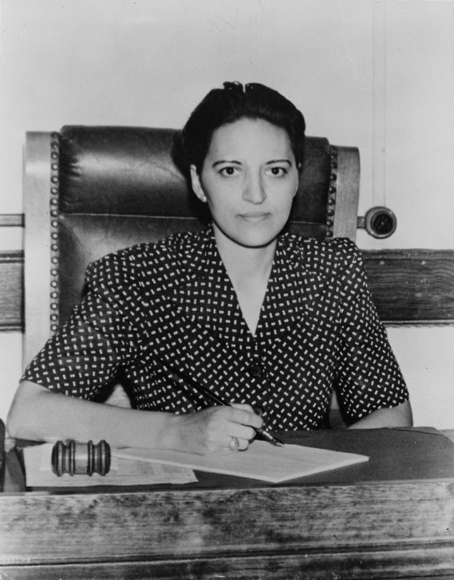 Judge Jane Bolin, first black female to occupy a court bench